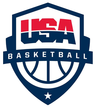 Logo of USA Basketball, the non-profit organization and the governing body for basketball in the United States.